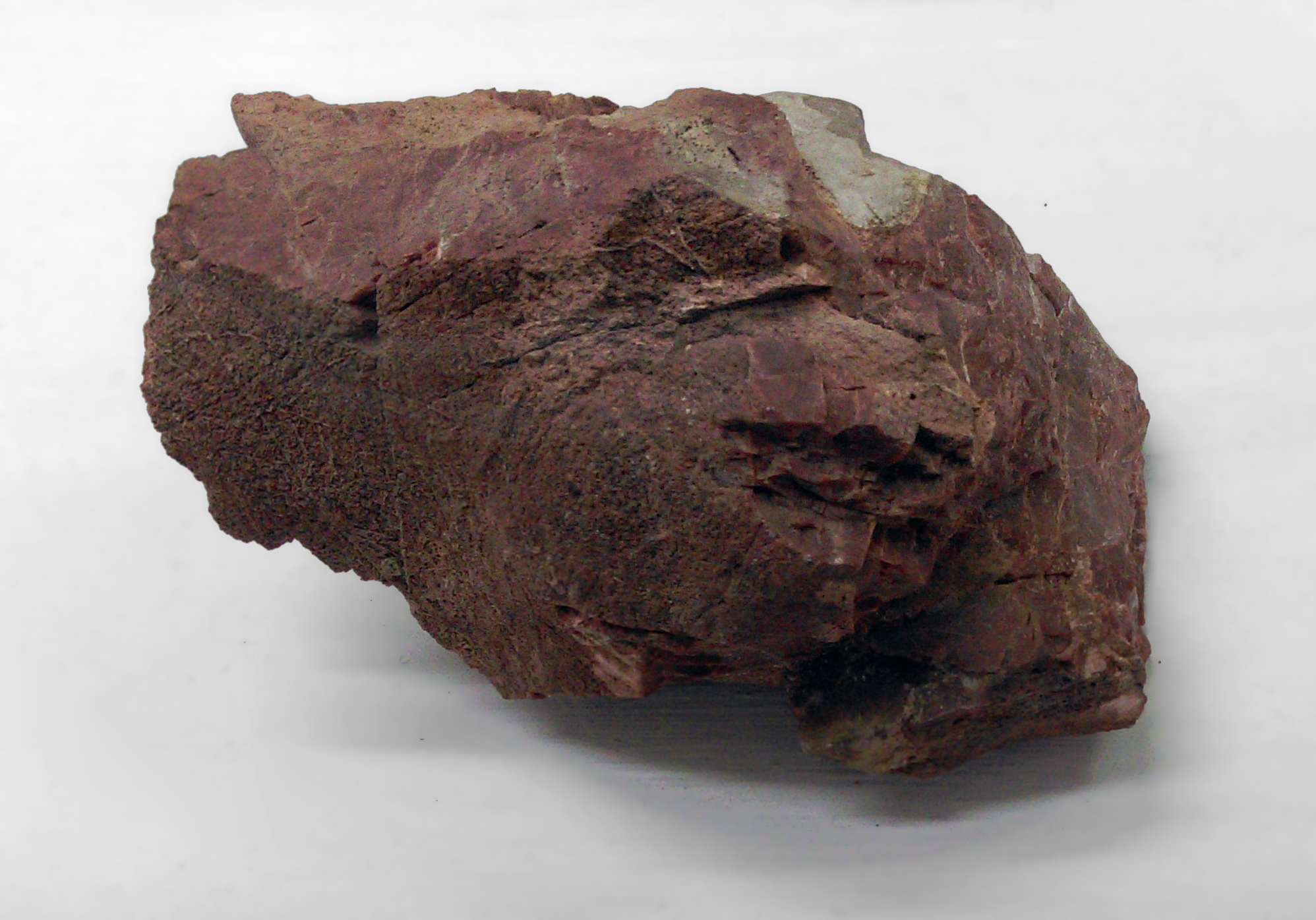 Red radiolarite (Western Tatras, Poland)